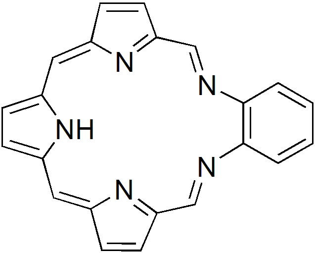 Texaphyrin General Structure